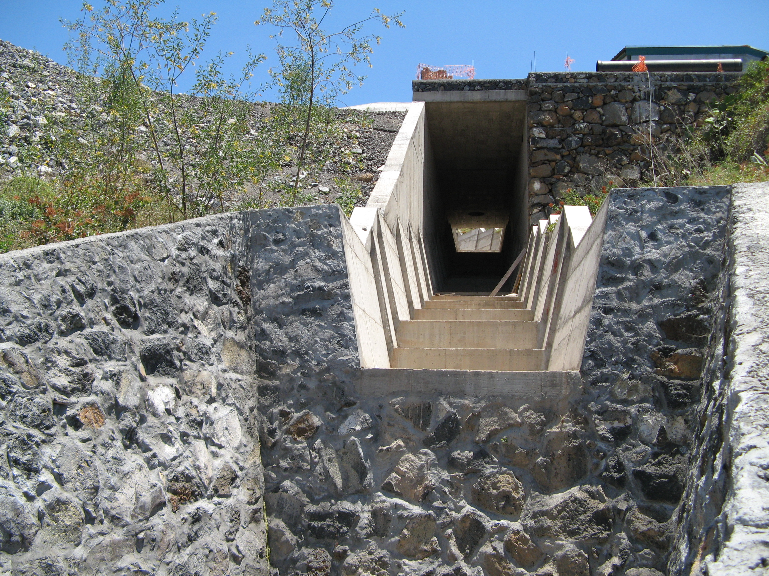 Tijarafe, Balsa de Vicario, Fall channel